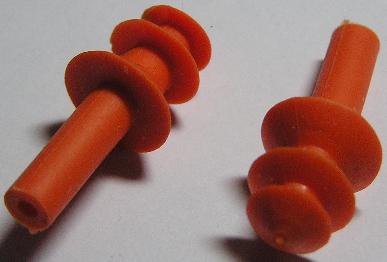 Economy type silicone rubber musicians earplugs. Taken Light current. 21 May 2006 using Olympus C745 Auto exp.